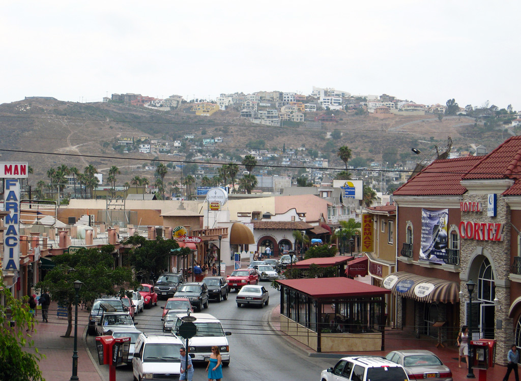 View of Ensenada, Mexico in summertime